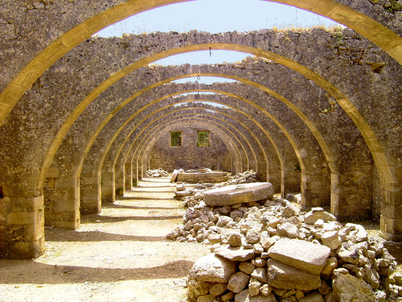 Monastery Ag. Georgios, Karidi, Vamos, Crete, Greece